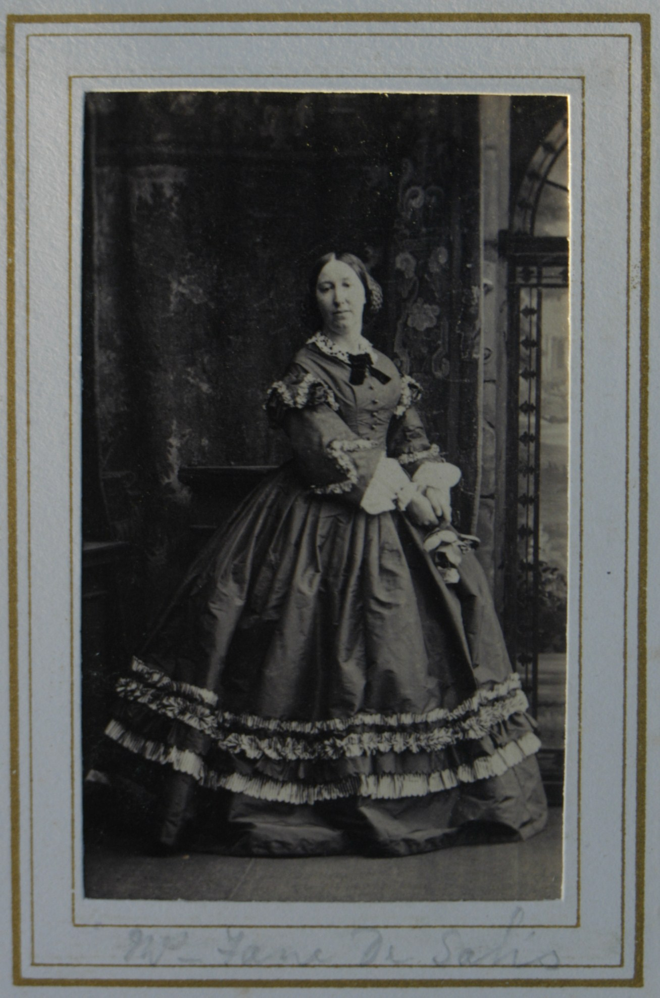 My photo (R. de SalisRodolph (talk) 23:24, 13 August 2013 (UTC)) of a cdv photo of Emily-Harriet Mayne (1816-96), Mrs Fane De Salis from 1859. Eldest daughter of J.T. Mayne of Teffont (1792-1843). Other information Emily-Harriet Mayne (1816-96), Mrs Fane De Salis from 1859 was the eldest daughter of J. T. Mayne of Teffont Evias (1792-1843) by Sarah Fulcher (died 1871), daughter of John Start of Halstead, Essex.